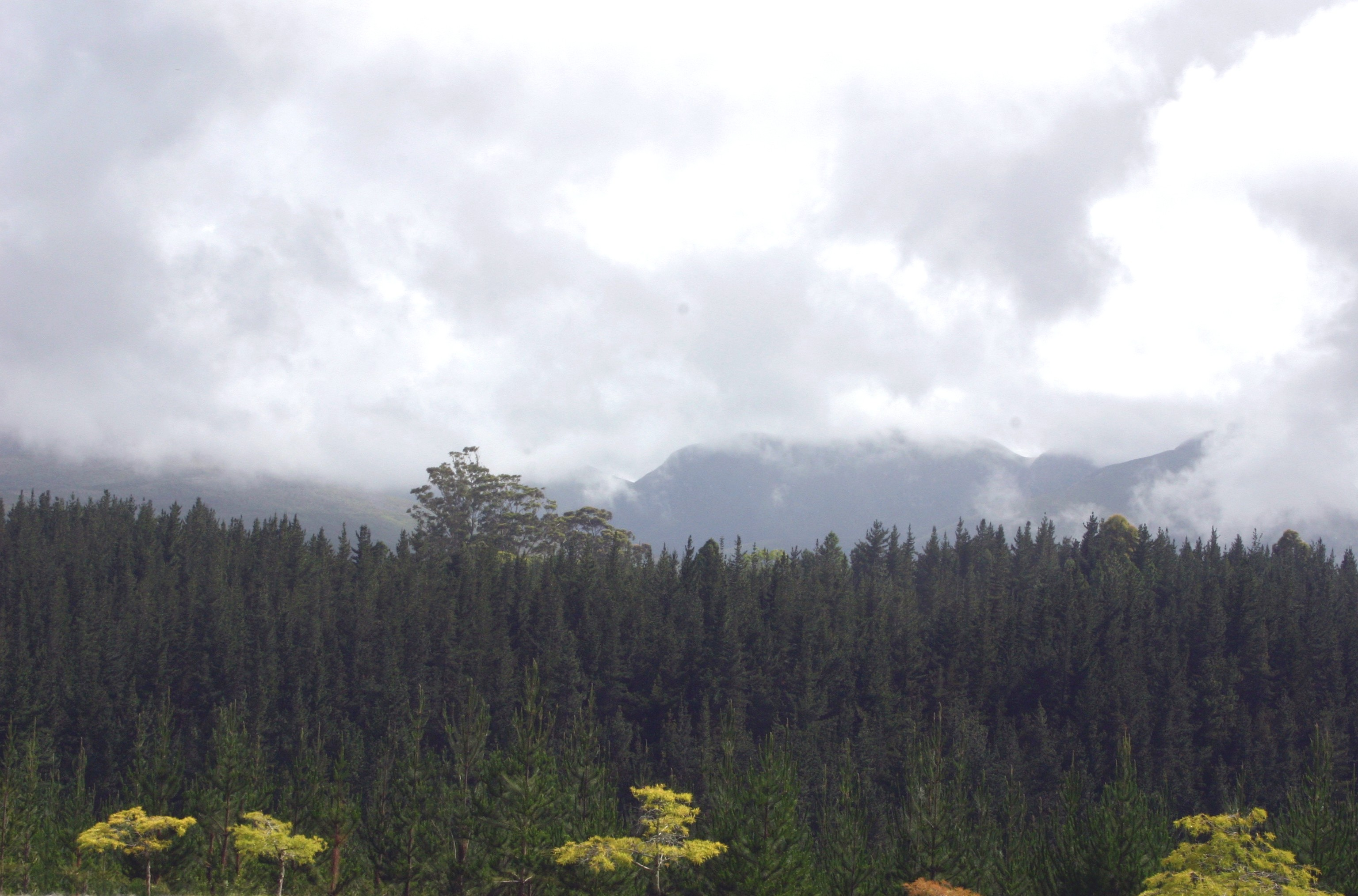 Own image taken 4 Jan 2007 of view from Saasveld to Outeniqua Mountains